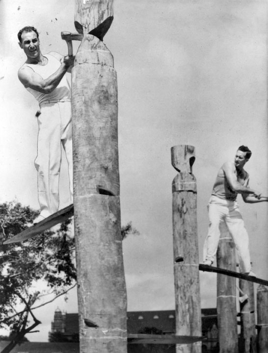 Tree felling contest at the Royal National Show, Brisbane. (The Royal National Show is also known as the RNA show or the EKKA)